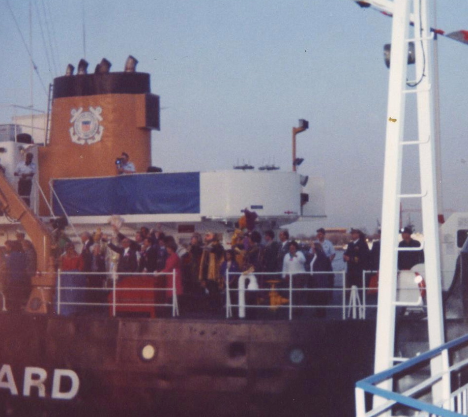 New Orleans Mardi Gras celebrations. Watching the arrival of "King Rex" on the Coast Guard ship "Sweet Gum" at the Mississippi River front on the evening before Fat Tuesday.